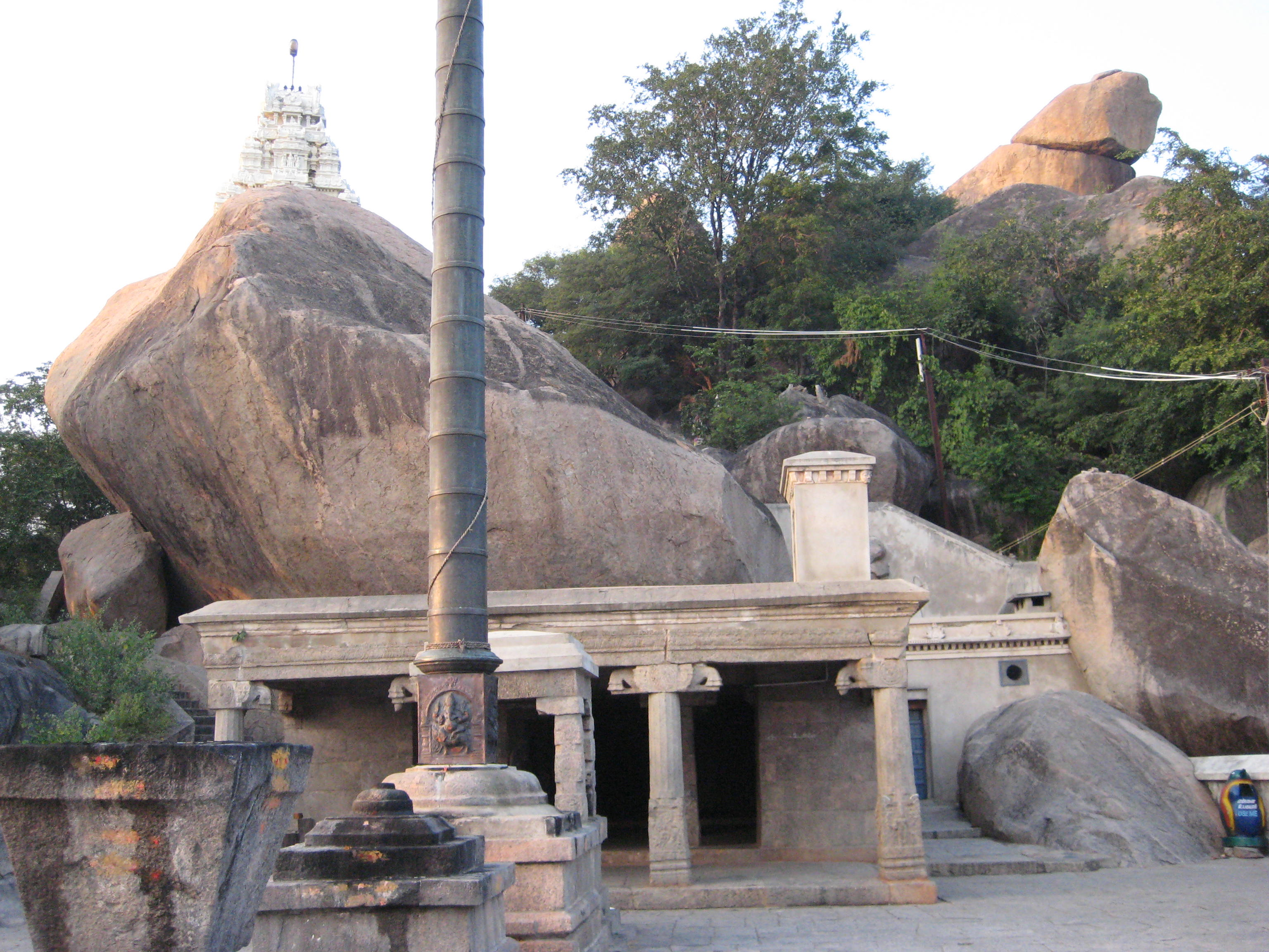 Vallimalai